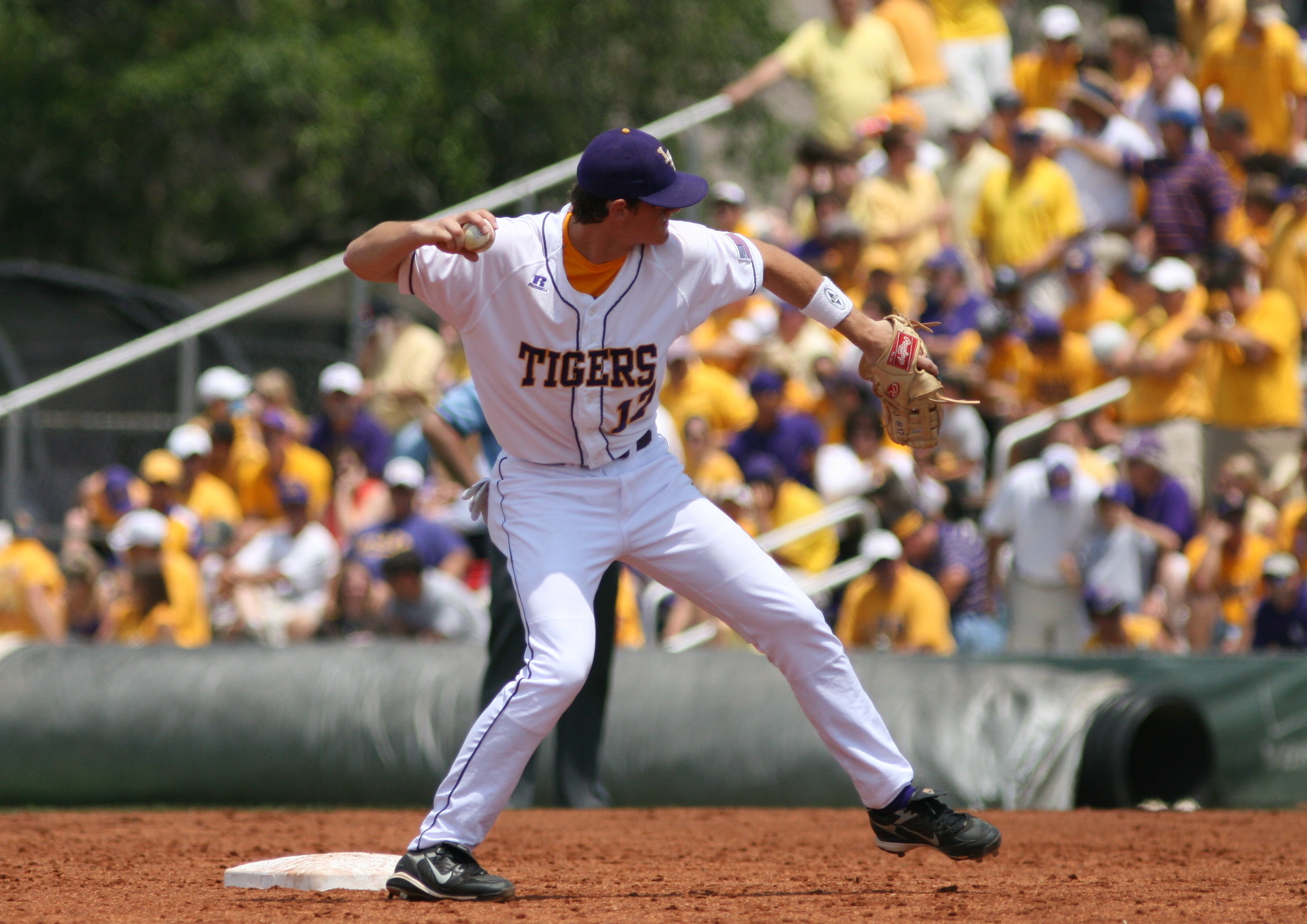 Baton Rouge Regionals '08